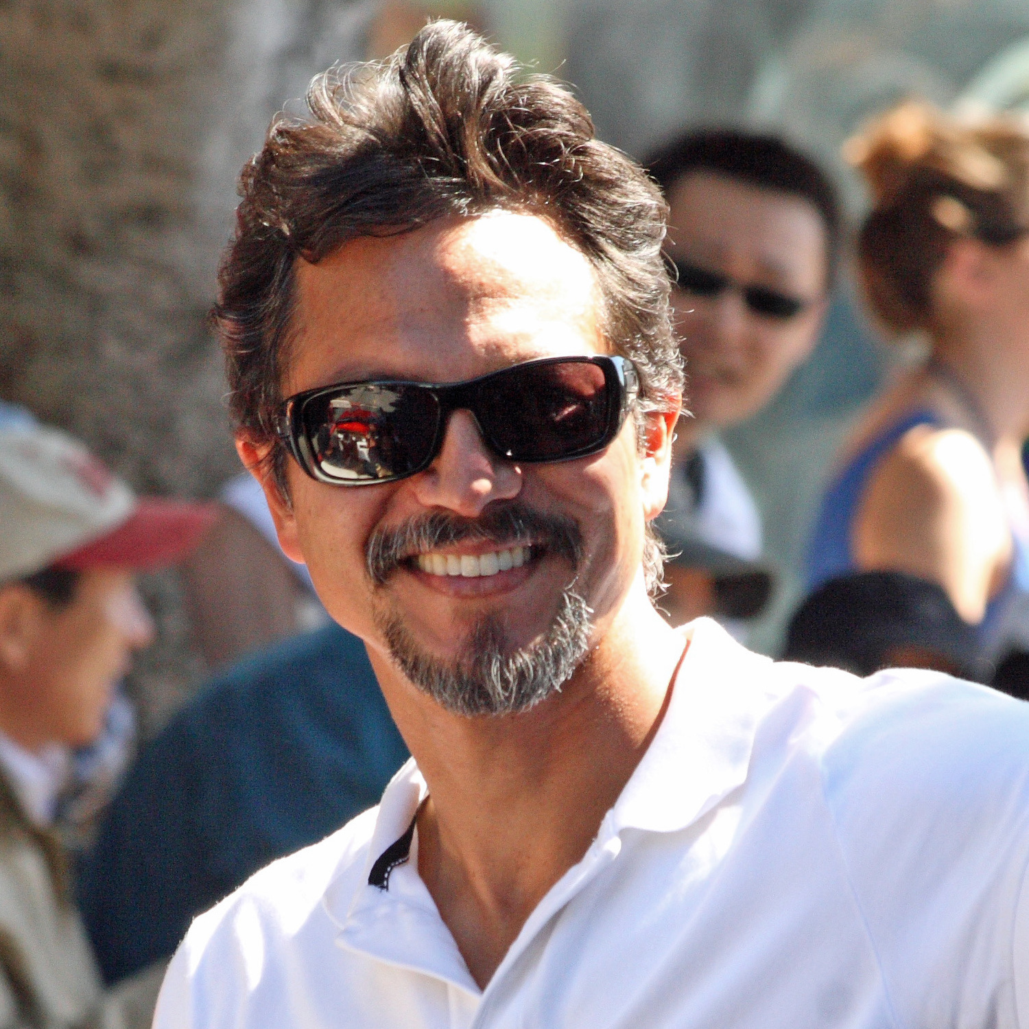 We had a chance to check out the Carnaval in San Francisco's Mission District over Memorial Day weekend in May 2010. The Carnaval is quite an experience - over three hours of people in some very cool costumes from multiple countries and cultures. Photographically it was very tough to shoot since it was sunny and the parade route passed under trees creating a lot of harsh shadows - oh, to have an overcast day! However this gives me another reason to go back there again - bummer!